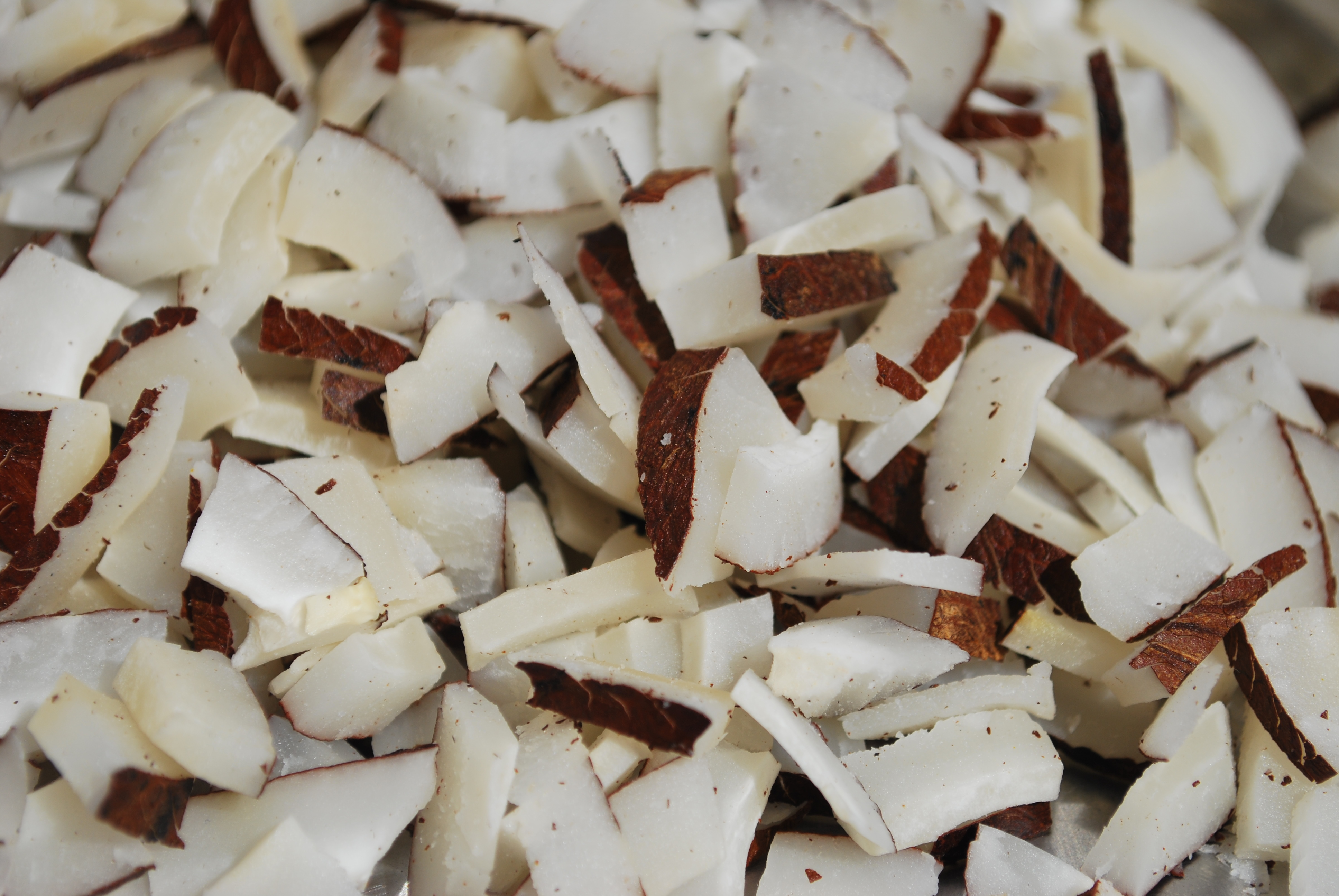 My mum lays these out to dry in the sun every once in a while to avoid infestation from insects. Thought it'd make a good picture!